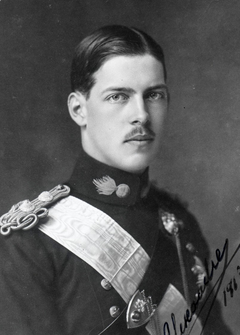 Portrait photograph of King Alexander of Greece